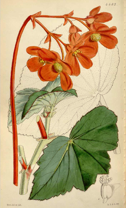 Begonia cinnabarina, in Curtis's Botanical Magazine, Volume 75 (1849)-Tab 4483